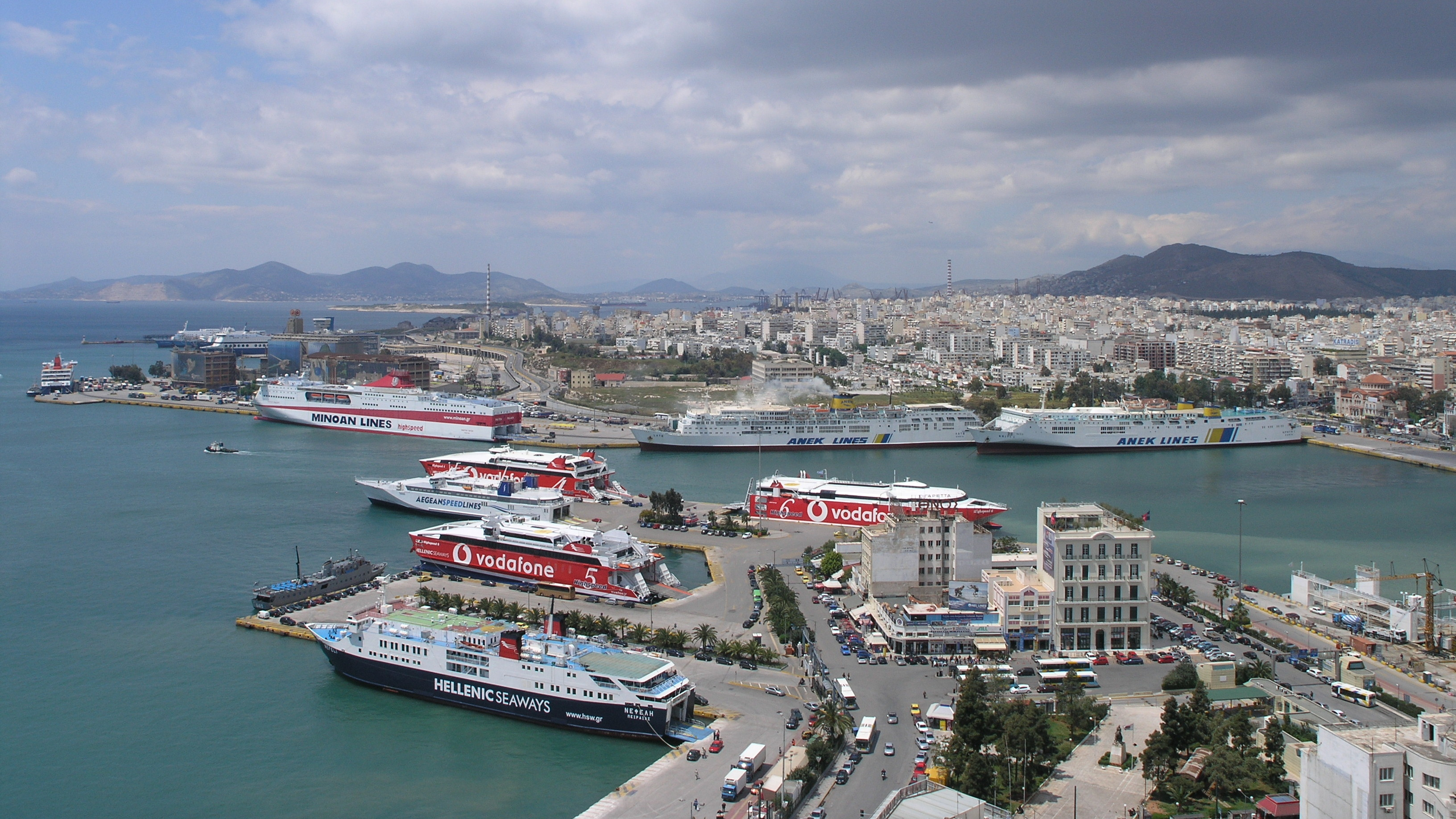 Panoramic view of the western part of the city and the port of Piraeus (periphery of Attica) in Greece.